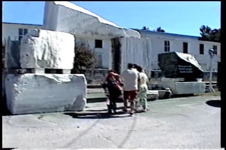 The entrance to the Vermont Marble Museum, in Proctor VT